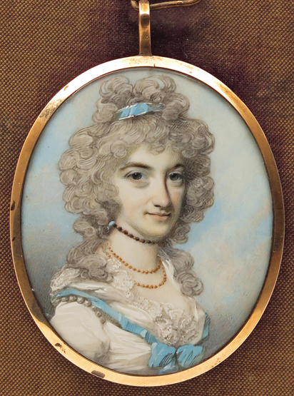 Lady Susan Gordon (c. 1752 – 1814), Countess of Westmorland, Lady Susan Woodford, miniature portrait by George Engleheart.